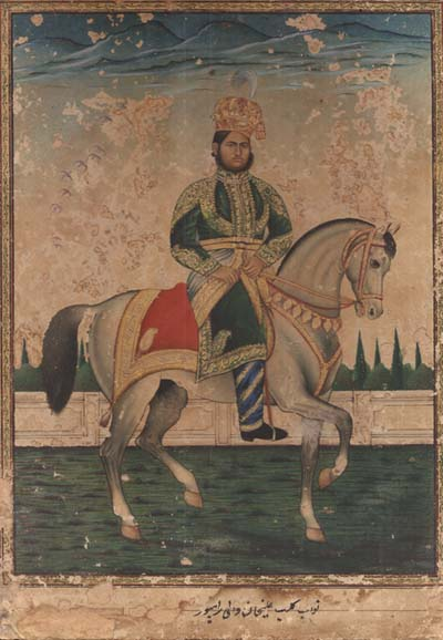 Navab Kalb-e 'Ali Khan of Rampur, r.1865-87, Ghalib's last (and unresponsive) patron